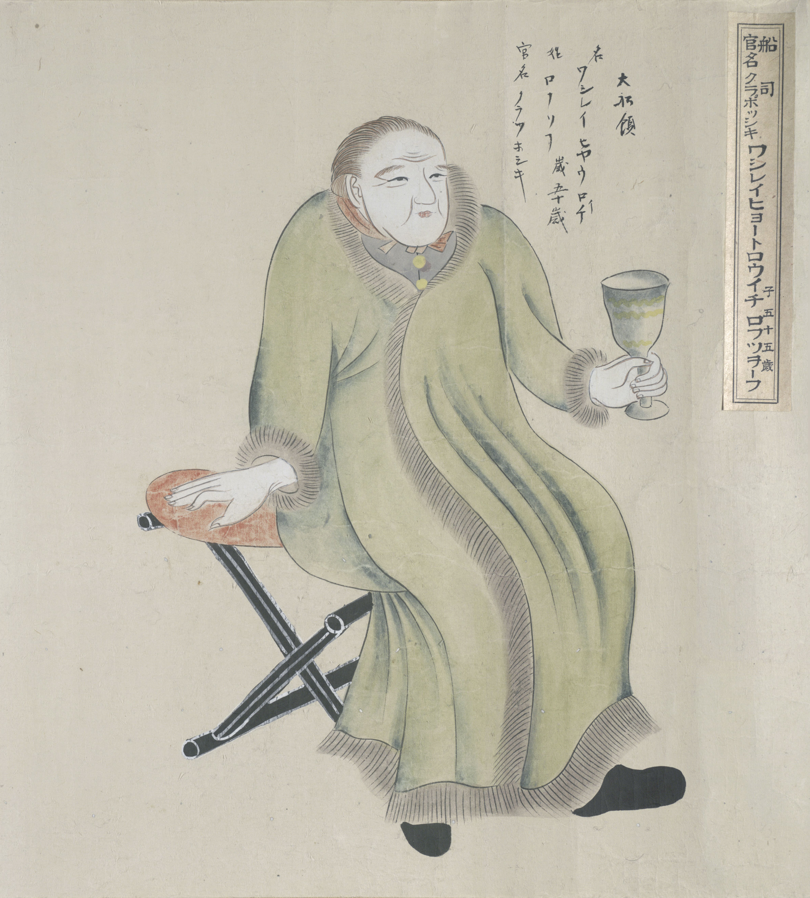 Ship's Captain from Adam Laxman's voyage Vasilii Fedorovich Lovtsov (aged 55; sometimes called Grigorii Lovstov) from "Portaits of the Crew of the Russian Ship Ekaterina that Arrived at Hakodate, Entering Port on the Eighth Day of the Sixth Month of Kansei 5 (1793) and Departing on the Seventeenth Day of the Seventh Month", Hakodate City Central Library, Hakodate, Hokkaido, Japan (the same Lovtsov as the author of The Lovtsov Atlas of the North Pacific Ocean: Compiled at Bol'sheretsk, Kamchatka, in 1782 from Discoveries Made by Russian Mariners and Captain James Cook and His Officers)